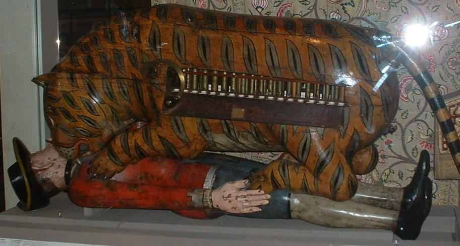 The famous mechanical toy of Tipu Sultan which shows a tiger attacking a British soldier. Norsk (nynorsk): Eit velkjend mekanisk leiketøy som tilhøyrde Tipu Sultan. Det viser ein tiger som går til åtak på ein britisk soldat.